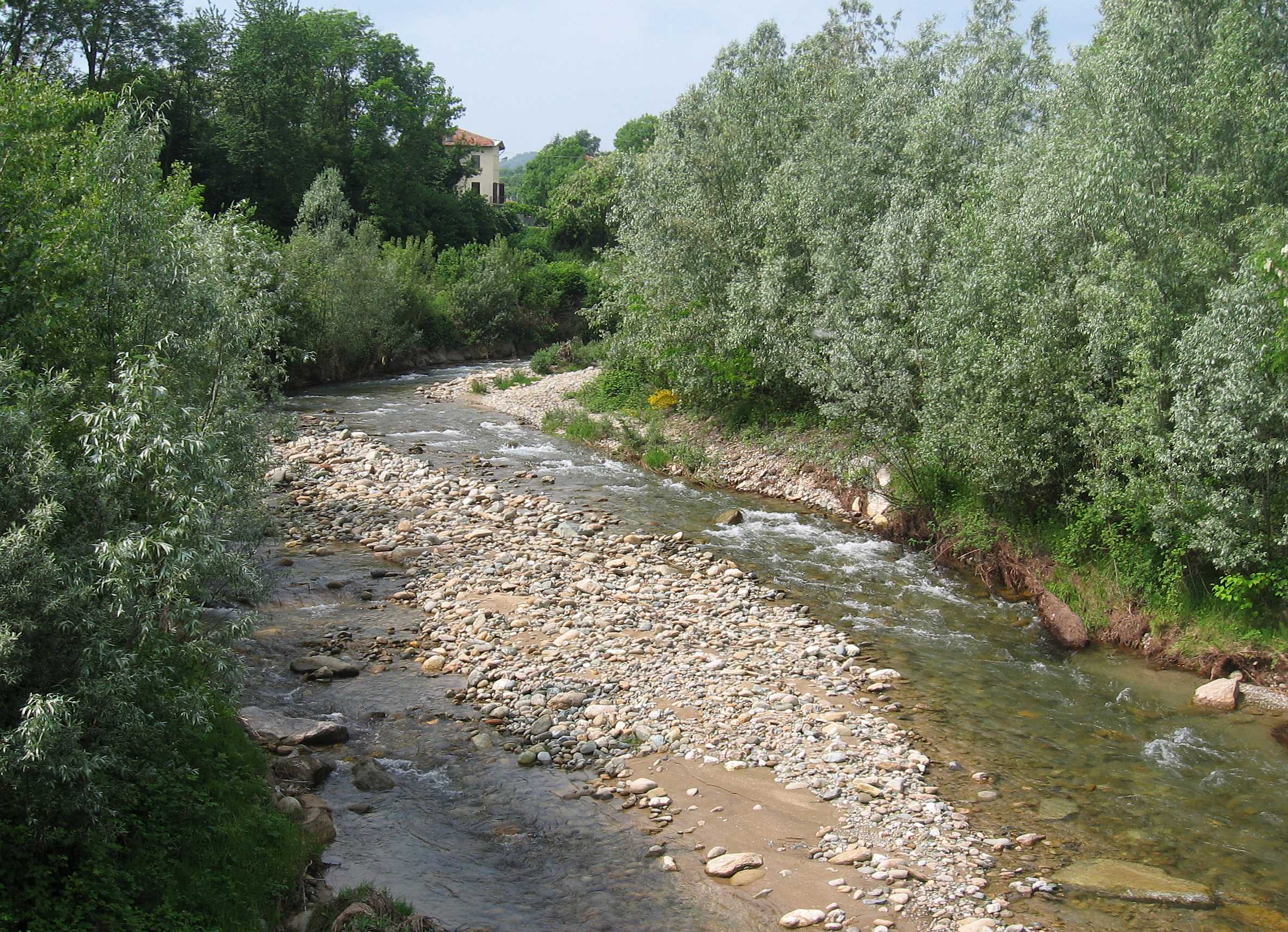 Viona near Mongrando (BI, Italy)